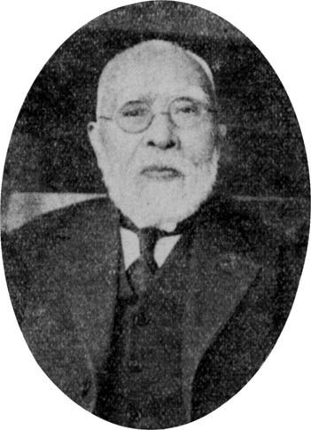 Mr. Nobuhachi Konishi.